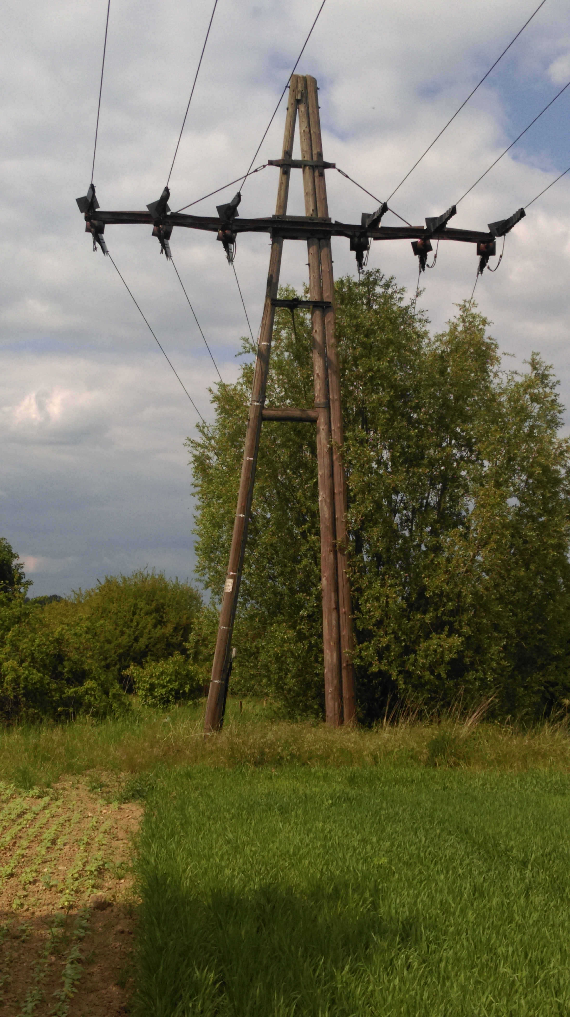 Wooden A-pole with 2 systems leading into transformer station Hemkerode